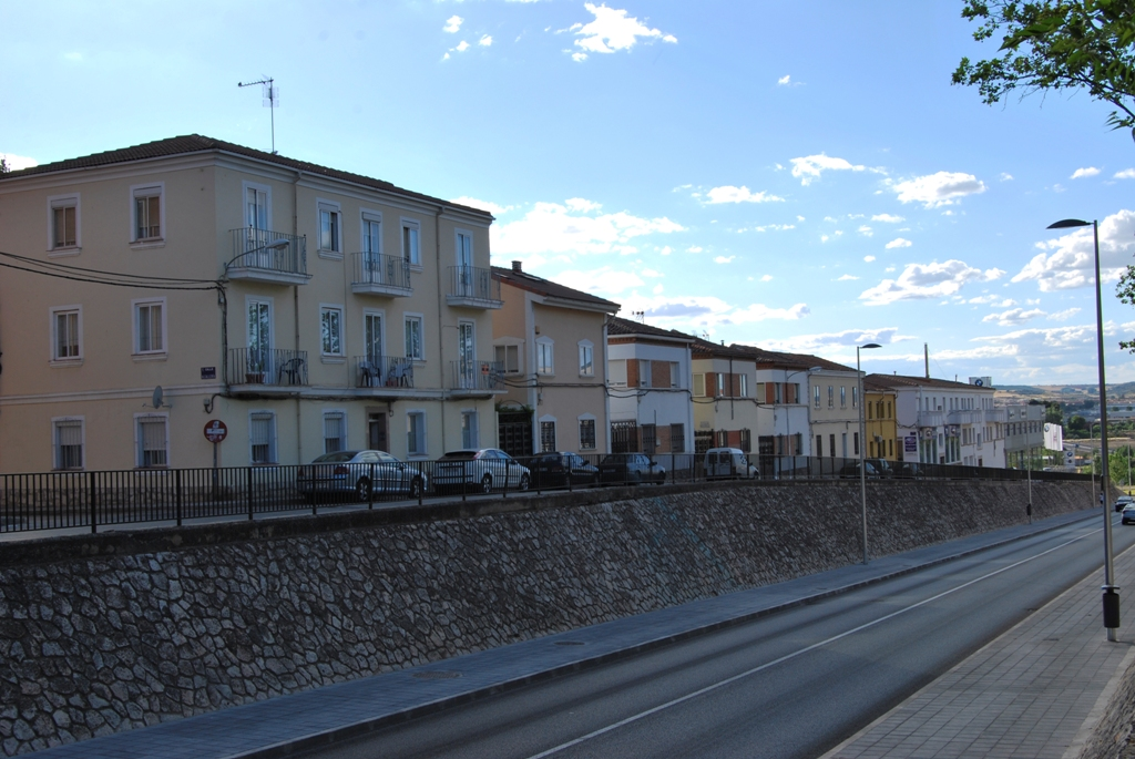 Cacharrerías Neighborhood and Station Avenue, in Guadalajara, Spain